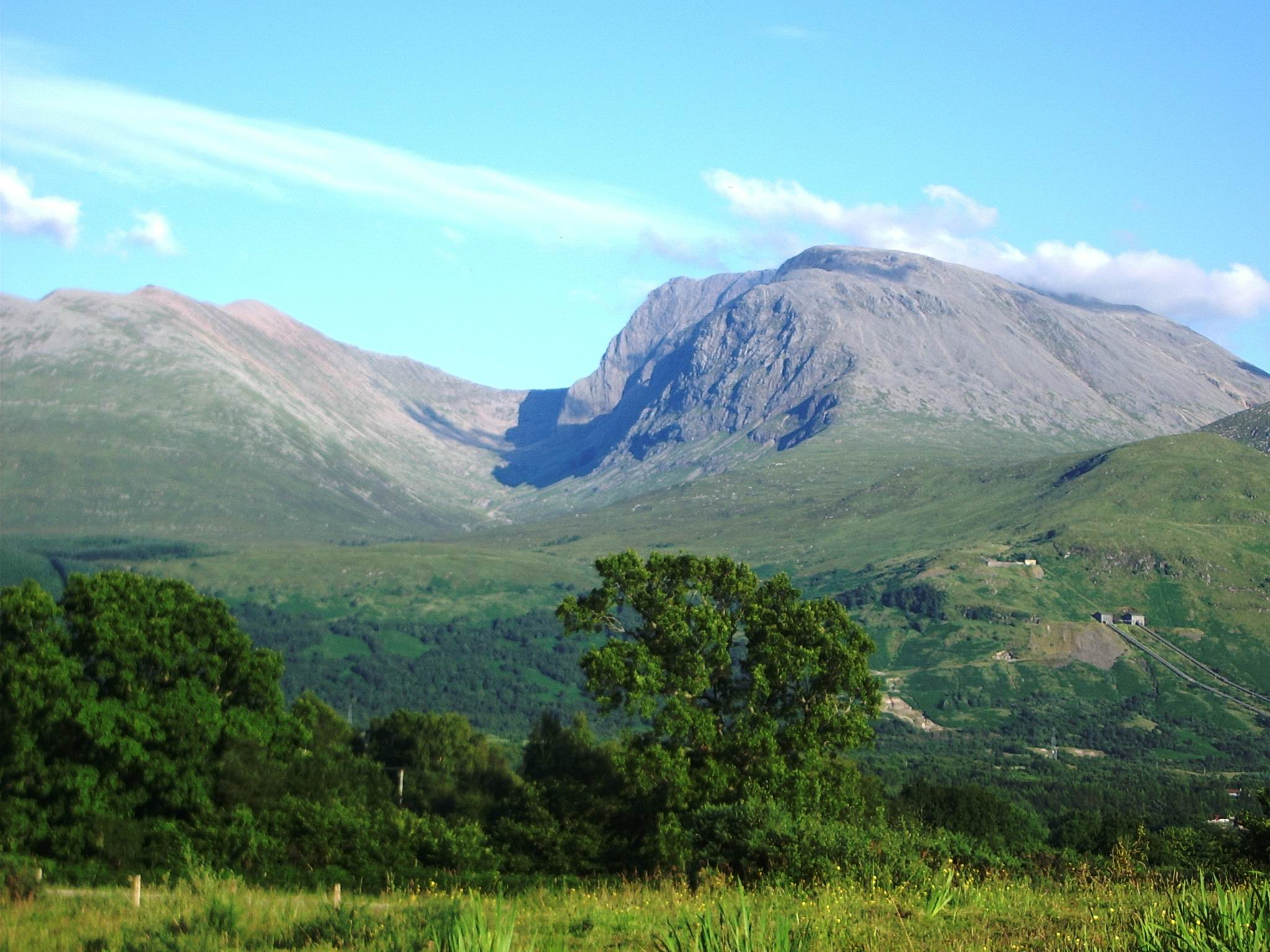 Ben Nevis, 1,344 metres, Scotland. Photograph taken from Banavie about 8 km north west. 18:55, 11 July 2005. The summit is beyond and to the left of the apparent highest point, Càrn Dearg North, 1,221 metres, (many Scottish mountains are called Càrn Dearg). Càrn Mòr Dearg, 1,223 metres, is to the left, connected to the Ben by the Càrn Mòr Dearg Arête at the head of Coire Leis (slightly in shadow). The pipelines of the Lochaber hydroelectric scheme are visible lower right.